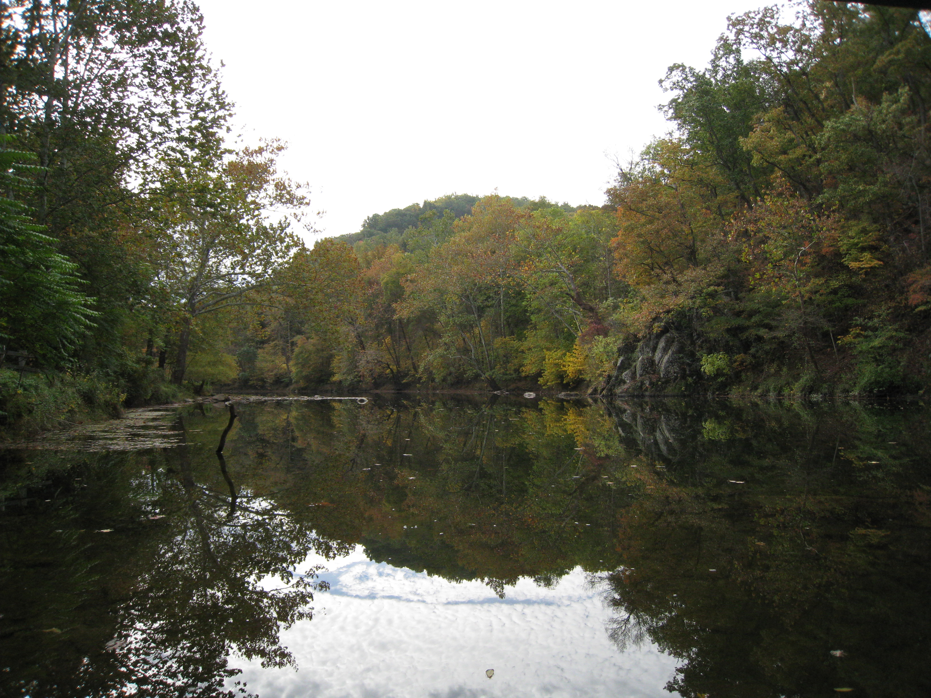 Cacapon River West Virginia Route 127 Bridge is a concrete bridge that carries Bloomery Pike (West Virginia Route 127) over the Cacapon River near Forks of Cacapon in West Virginia, United States.